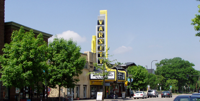 The Varsity theater in Dinkytown, near the University of Minnesota.